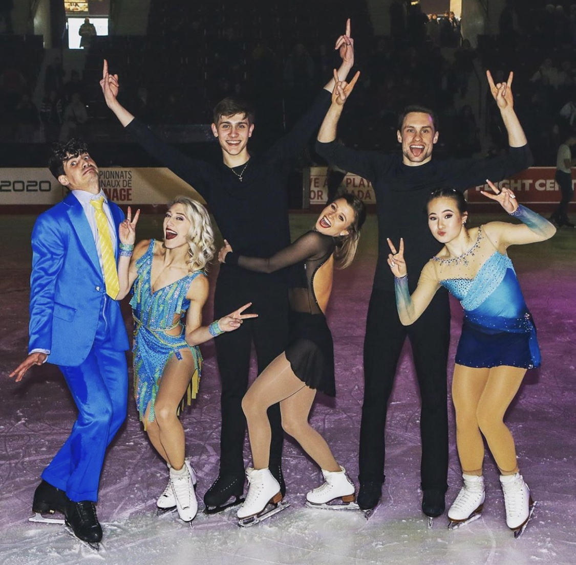 Gala- Winners National Figure Skating Championships 2020.